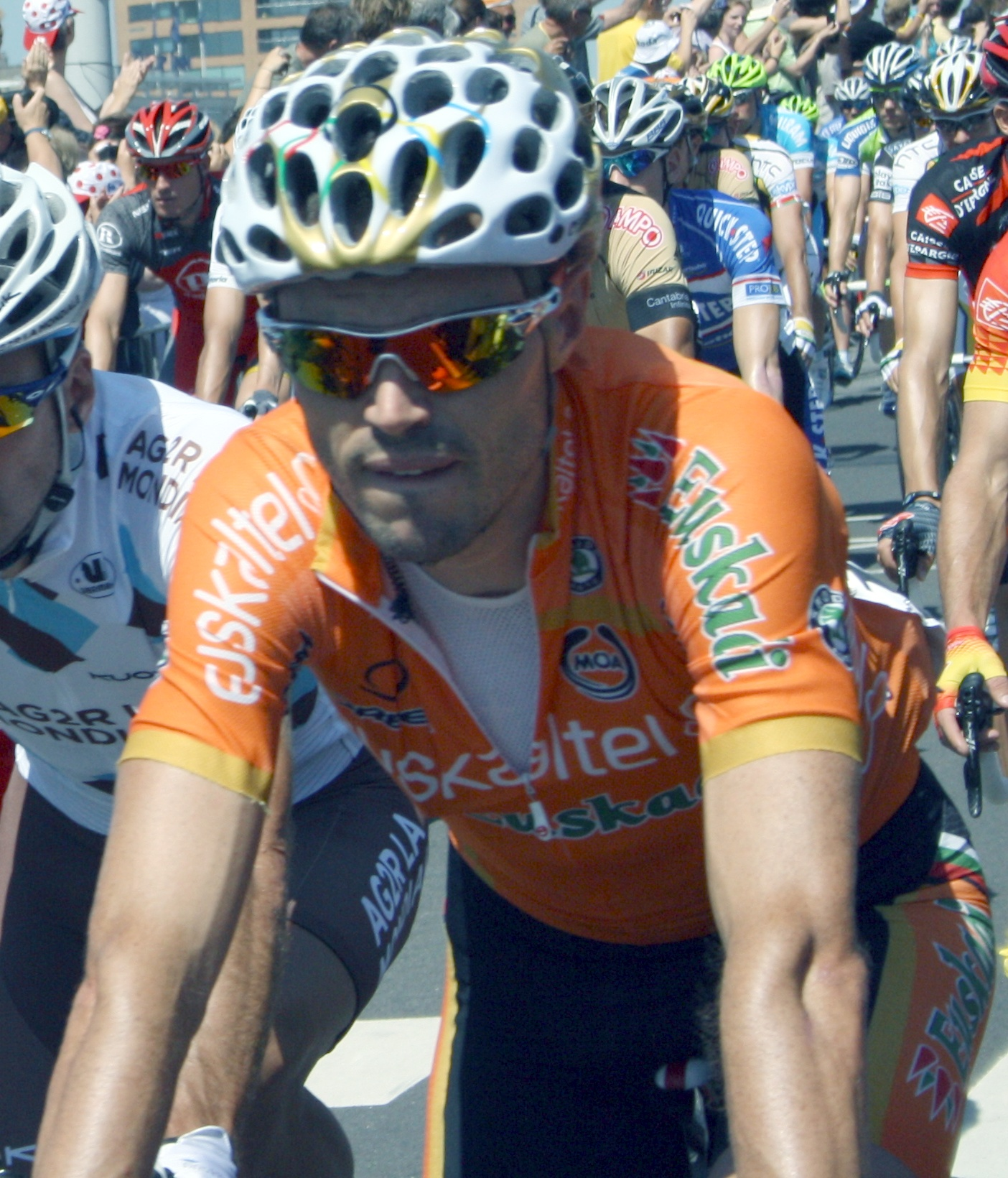 Samuel Sánchez at the start of the first stage of the 2010 Tour de France in Rotterdam